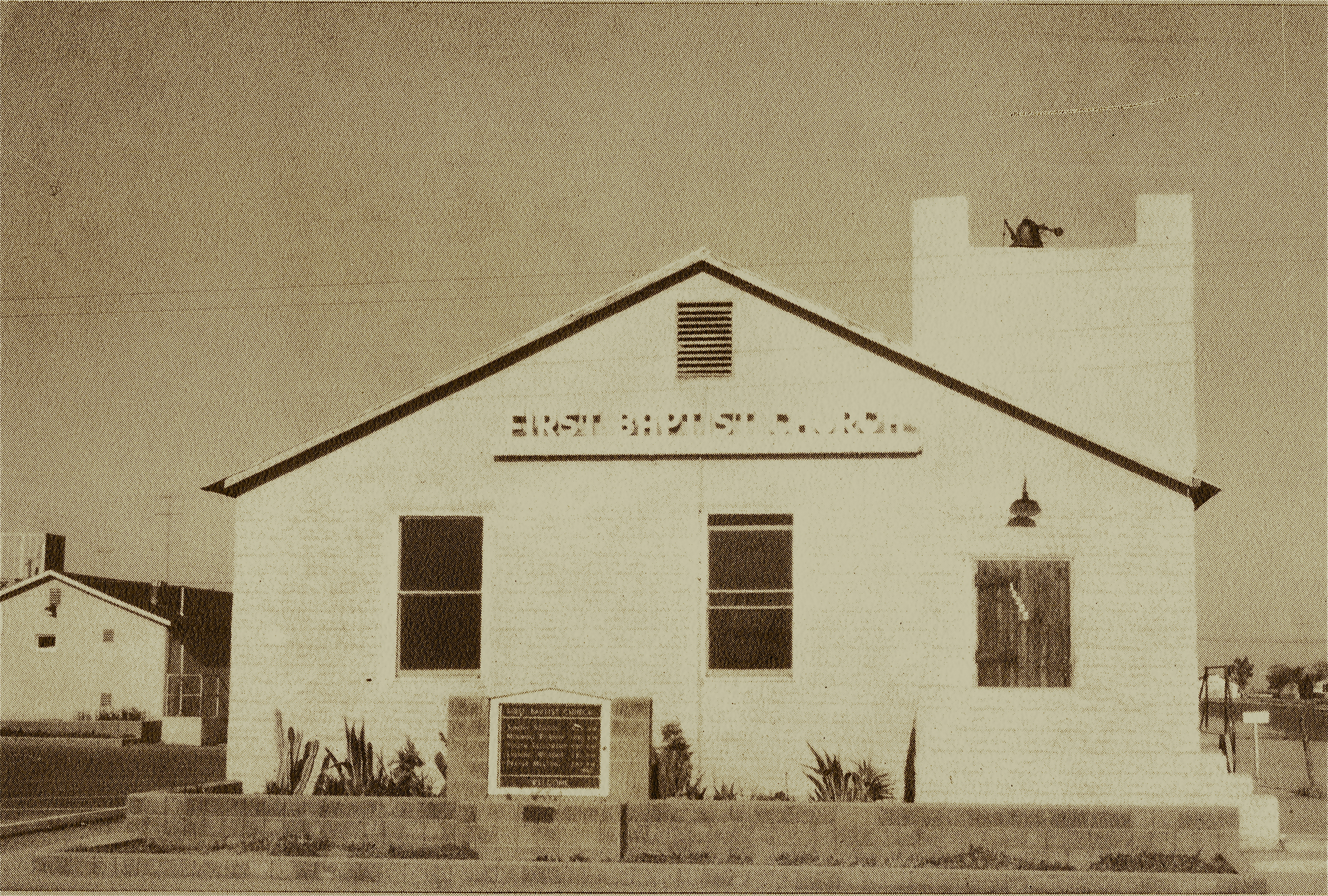 Boron First Baptist Church, circa 1965